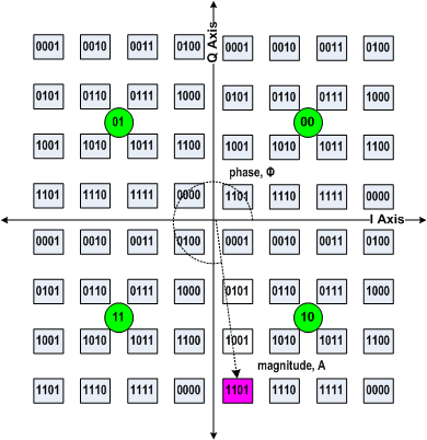 Example of layered modulation. Author : Donald W. Gillies